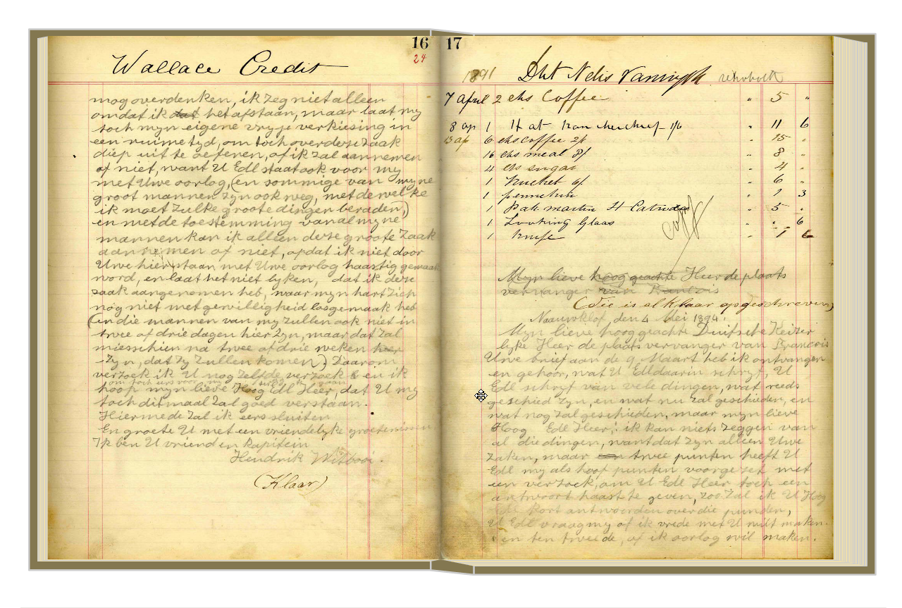 Letter Journal No. 2 of Hendrik Witbooi